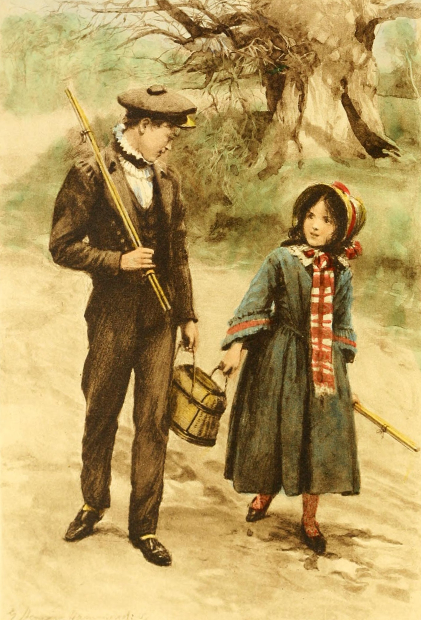 Tom and Maggie Tulliver from The Mill on the Floss by George Eliot